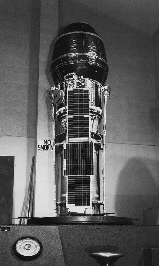 SAS-2 being weighed